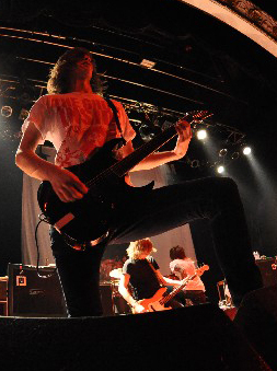 The Opera House-Toronto,ON I don't really like that font... but it's okay for the time being haha.